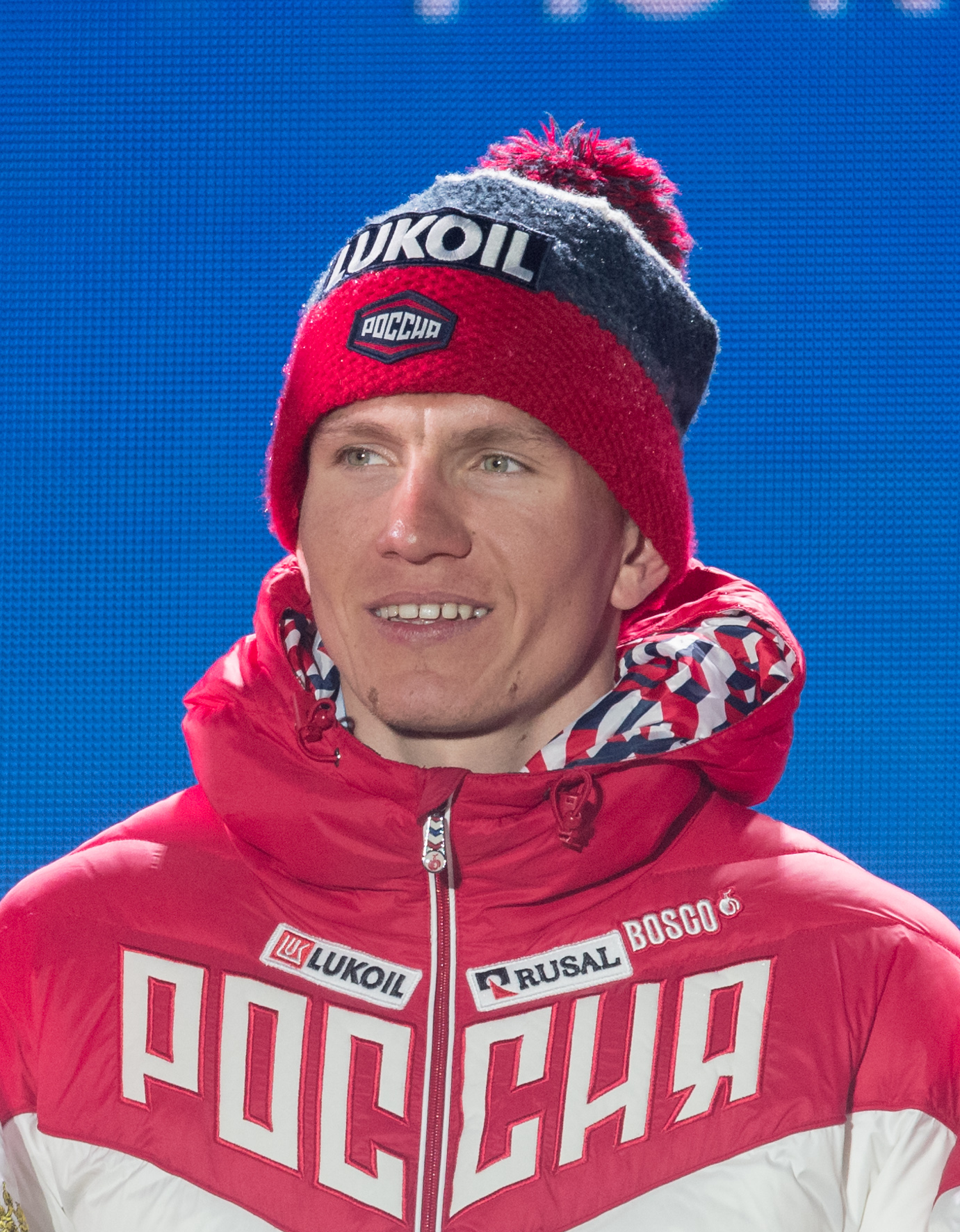 FIS Nordic World Ski Championships Seefeld 2019 - Medal Ceremony at the Medal Plaza. Picture shows Alexander Bolshunov (RUS).